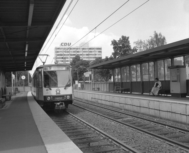 Tram on Route S in Bonn